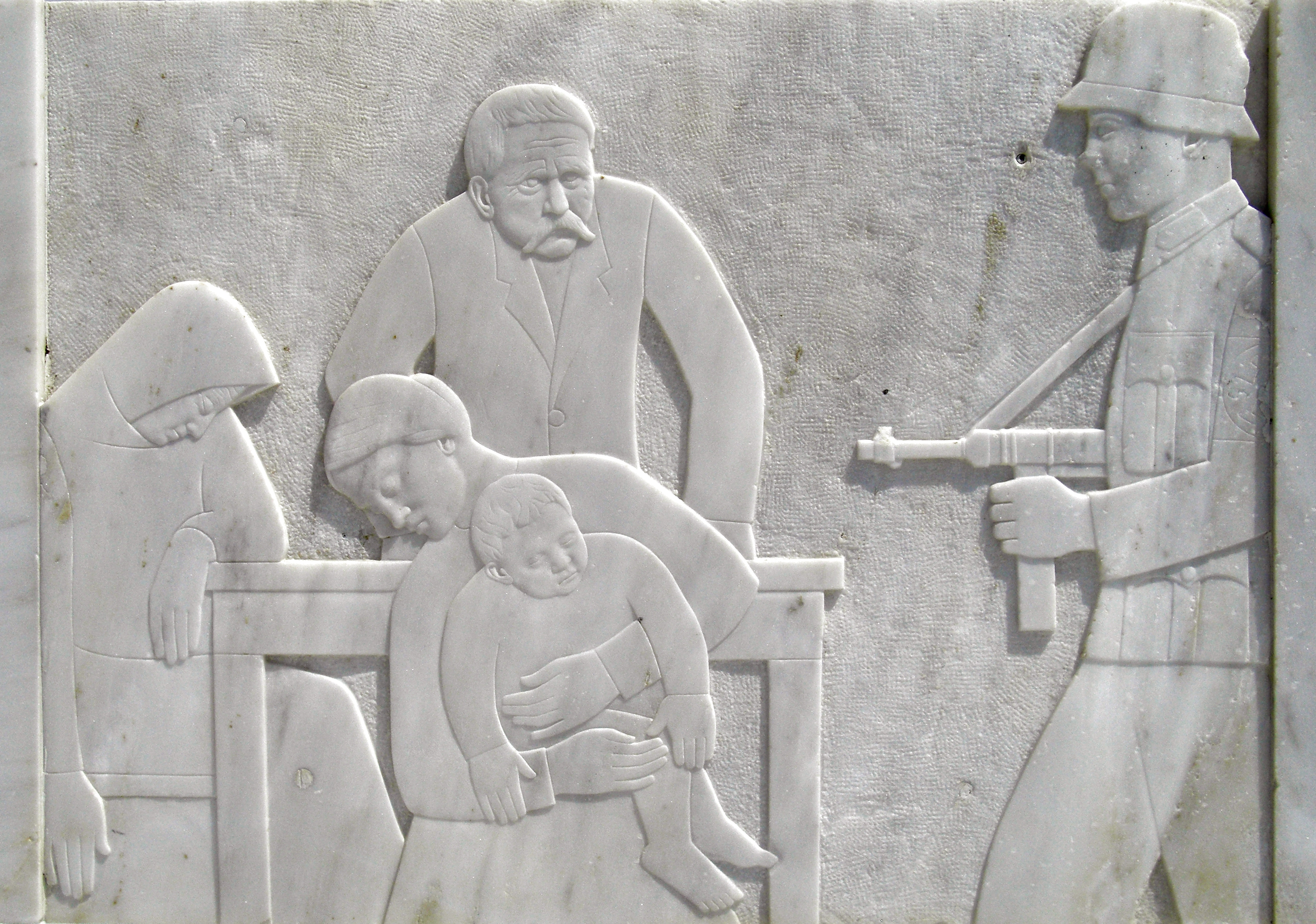 Monument of the massacre of Distomo in Greece, sector of relief